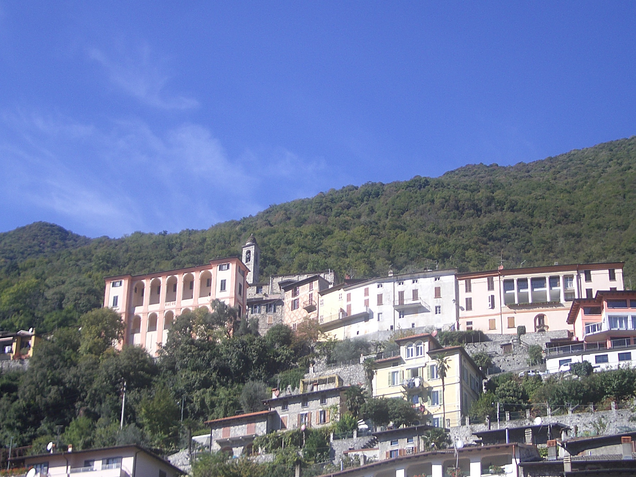 Albogasio Valsolda, view from the lake of Albogasio Superiore (the main palace is "Villa Salve", formerly "Palazzo Affaitati", built by Isidoro Affaitati)